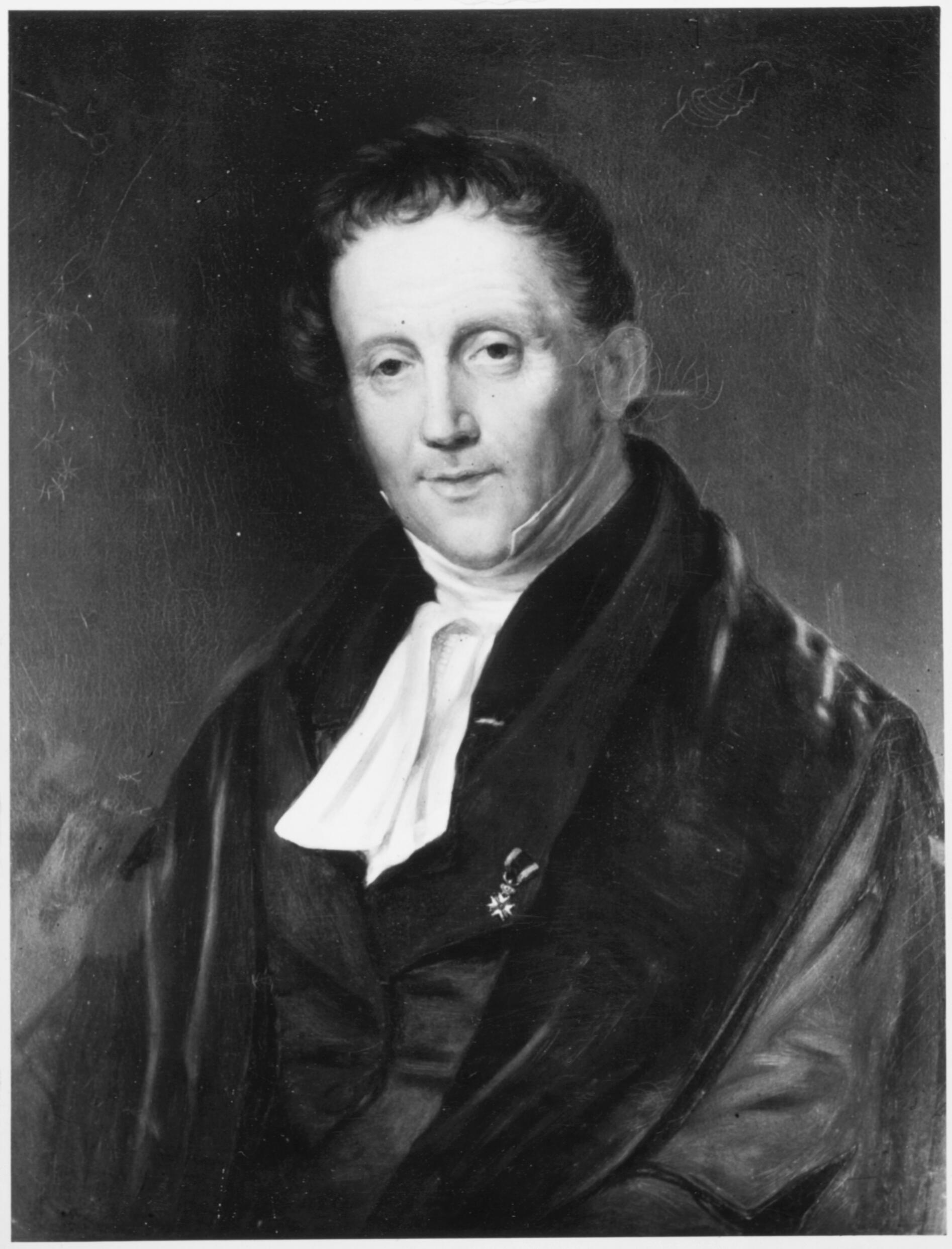 Jacobus Hendricus van Reenen